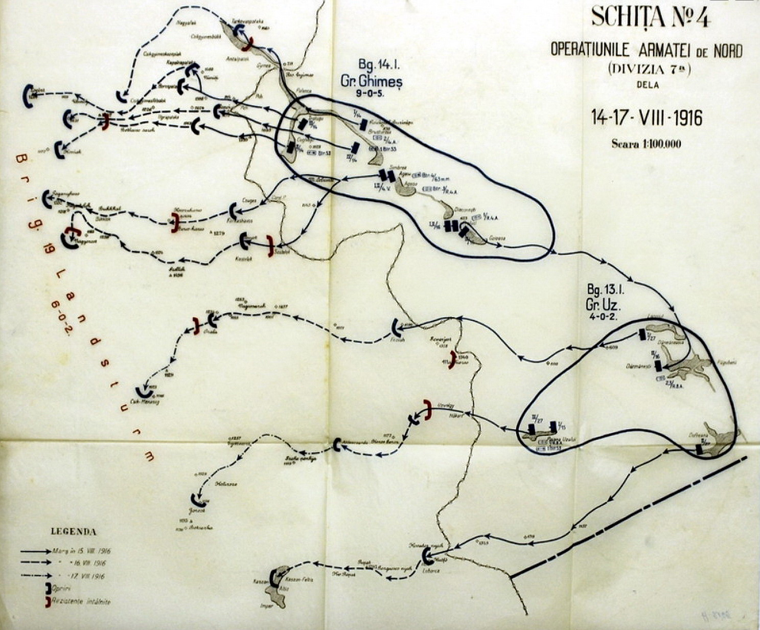 Situation of the Romanian troops belonging to the Northern Army in august 1916